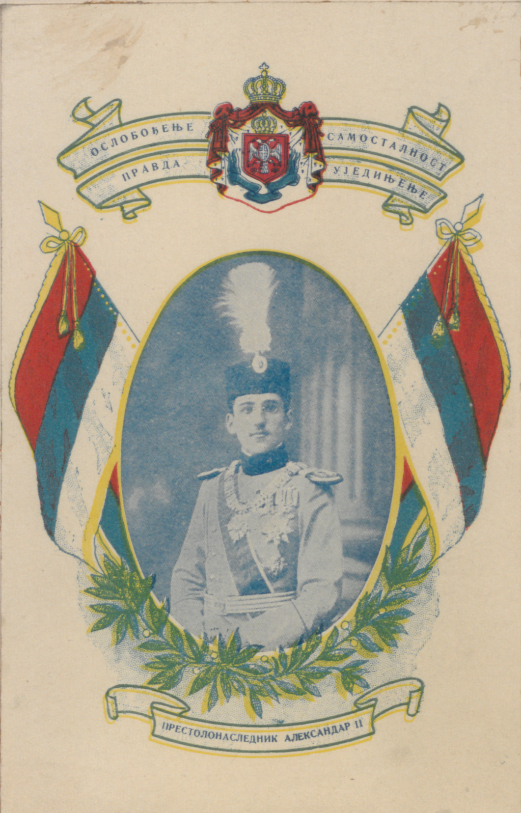 Original caption: “Serbian Crown Prince Alexander.”